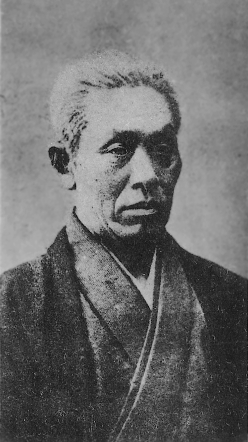 Portrait of Kano Hogai (狩野芳崖, 1828 – 1888)